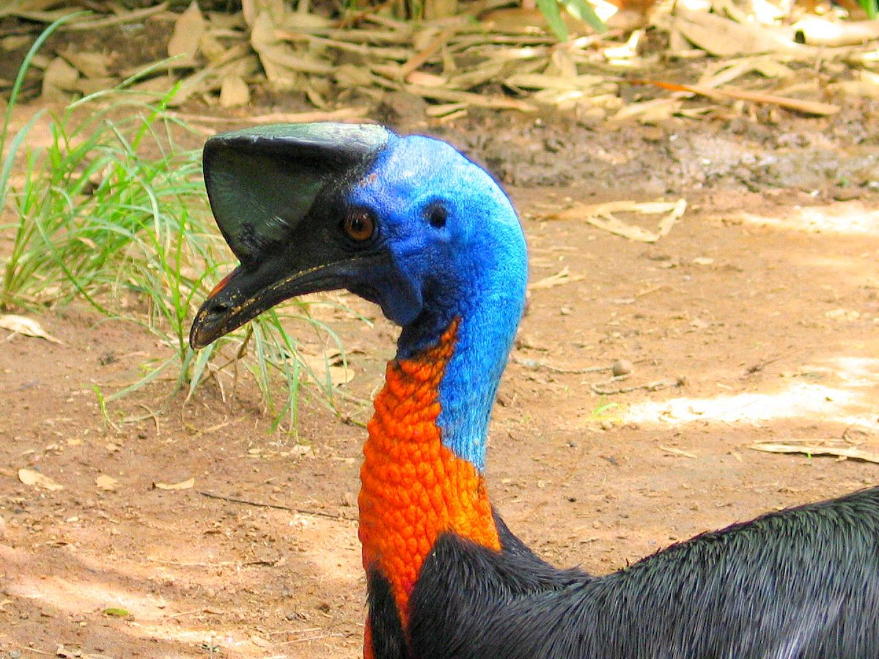 Norther Cassowary (Casuarius unappendiculatus) at Bali Bird Park. Upper body showing side of head and neck.